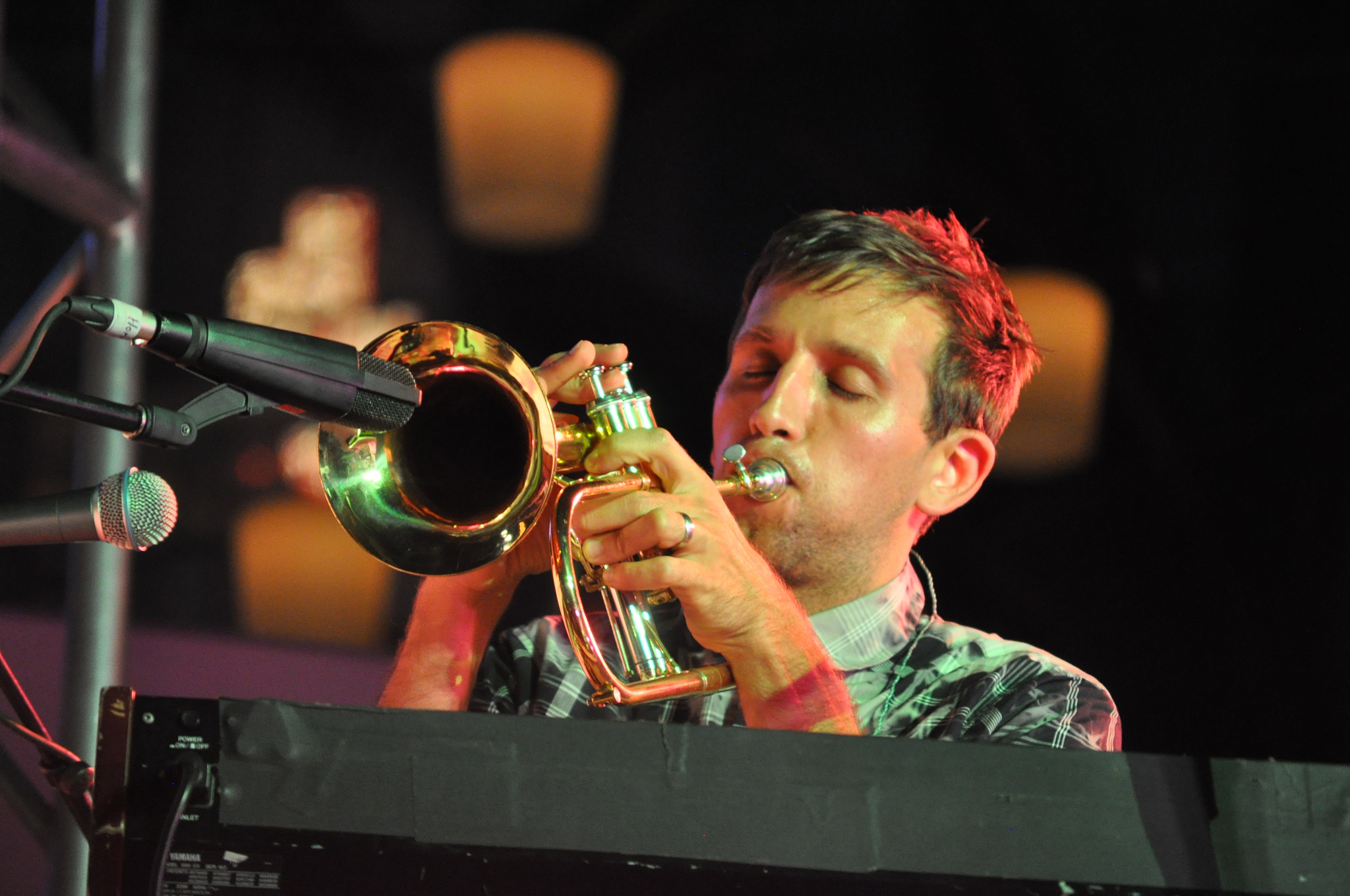 Andrew Dost playing the Flugelhorn